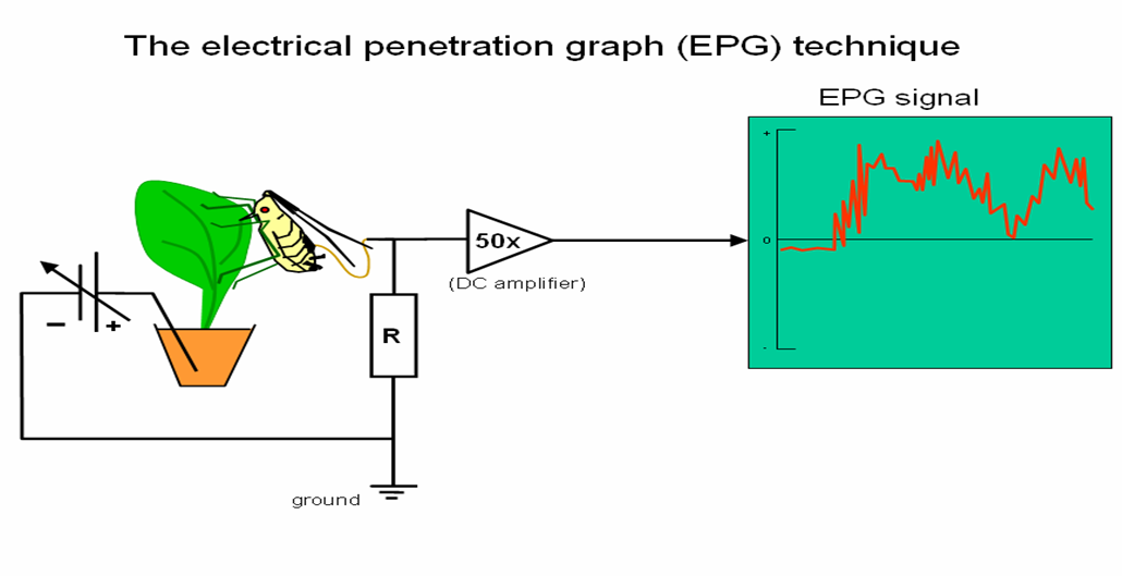 The electrical penetration graph (EPG) technique.